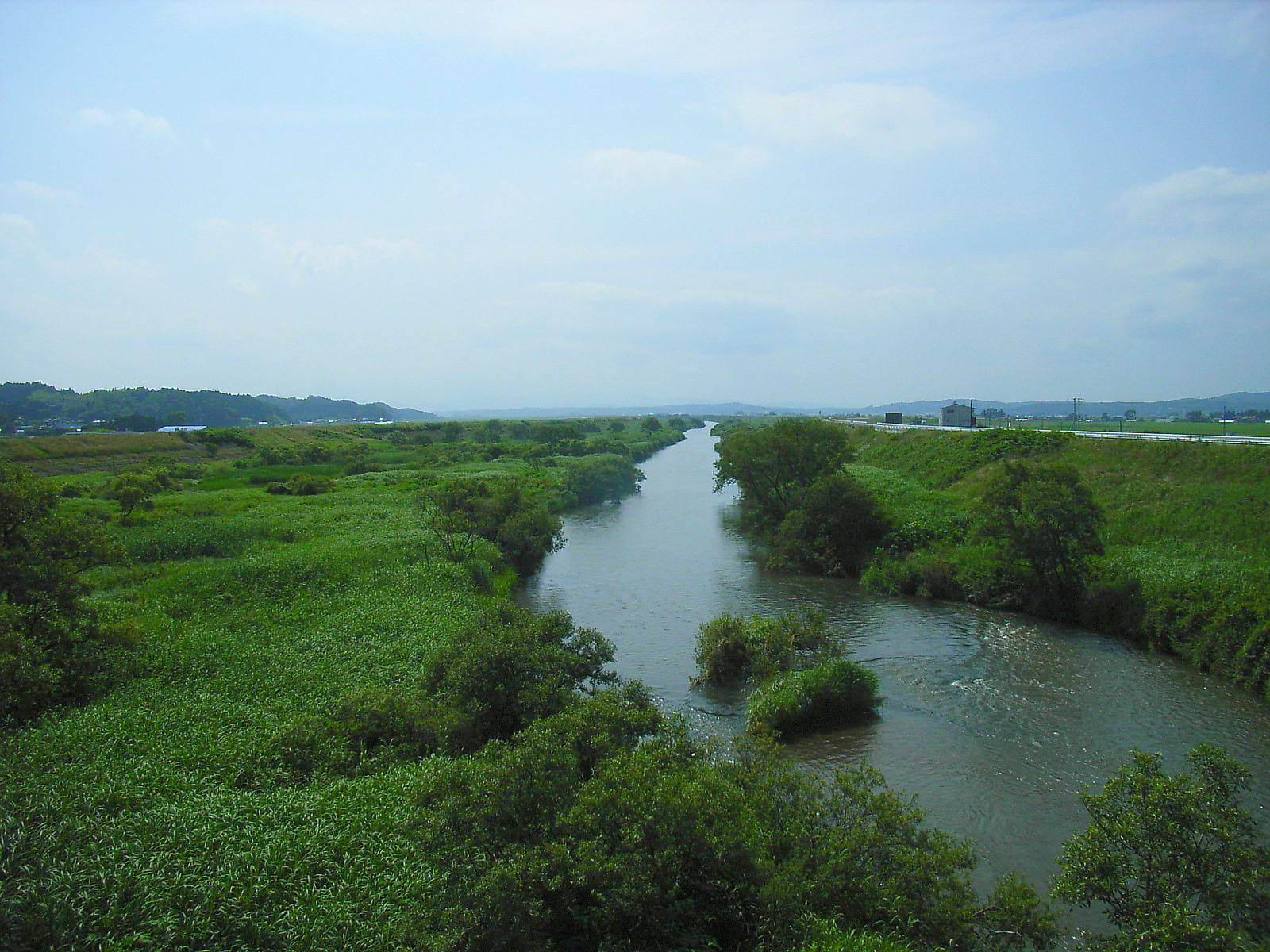 Yoshida River. Matsushima, Miyagi prefecture, Japan.